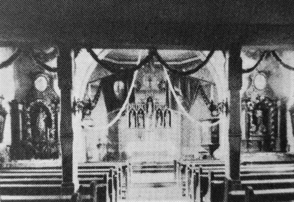 Former church of St. Katharina in Scheuern (Saarland, Germany); built in 1729